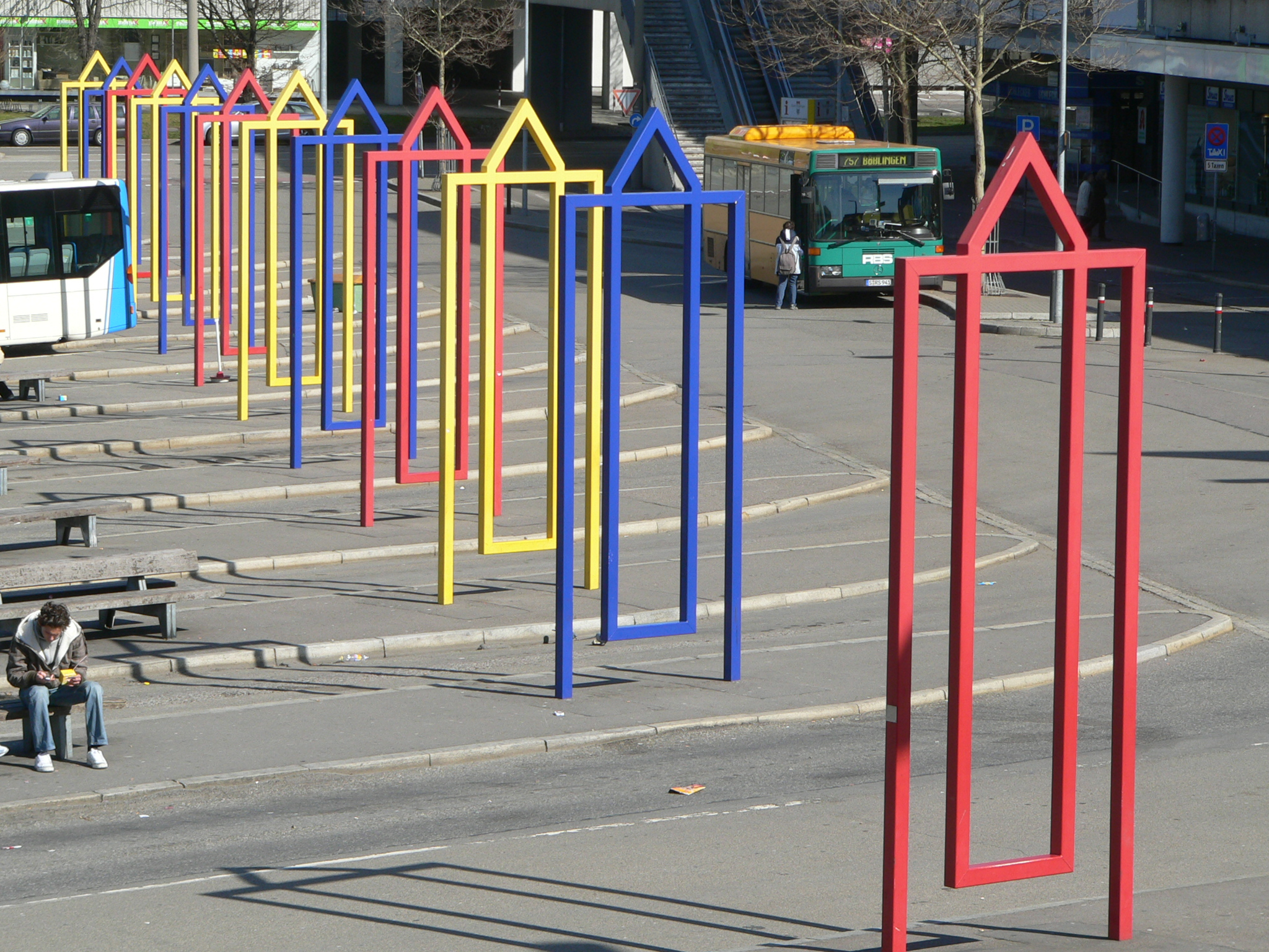 "Stadt-Sitz-Zeichen" by Marinus van Aalst. Central busstation in Böblingen. One of 12 objects of the "SitzArt 2003" in Böblingen, Germany